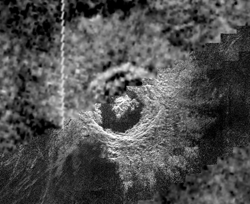 Golubkina crater on Venus. This image combines regions of high and low data resolution.